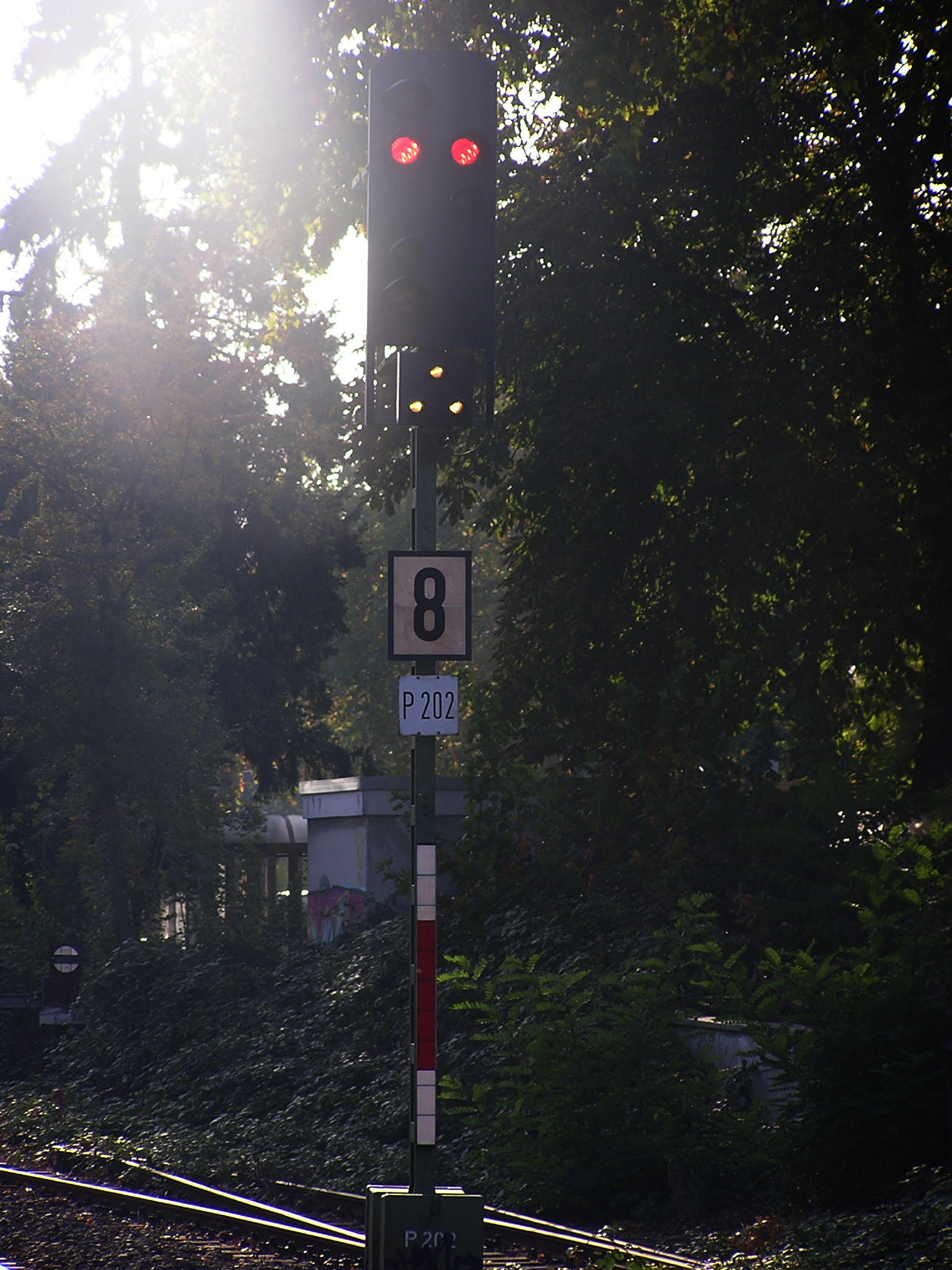 Exiting Signal in Oberursel showing Hp 0 and Zs 1